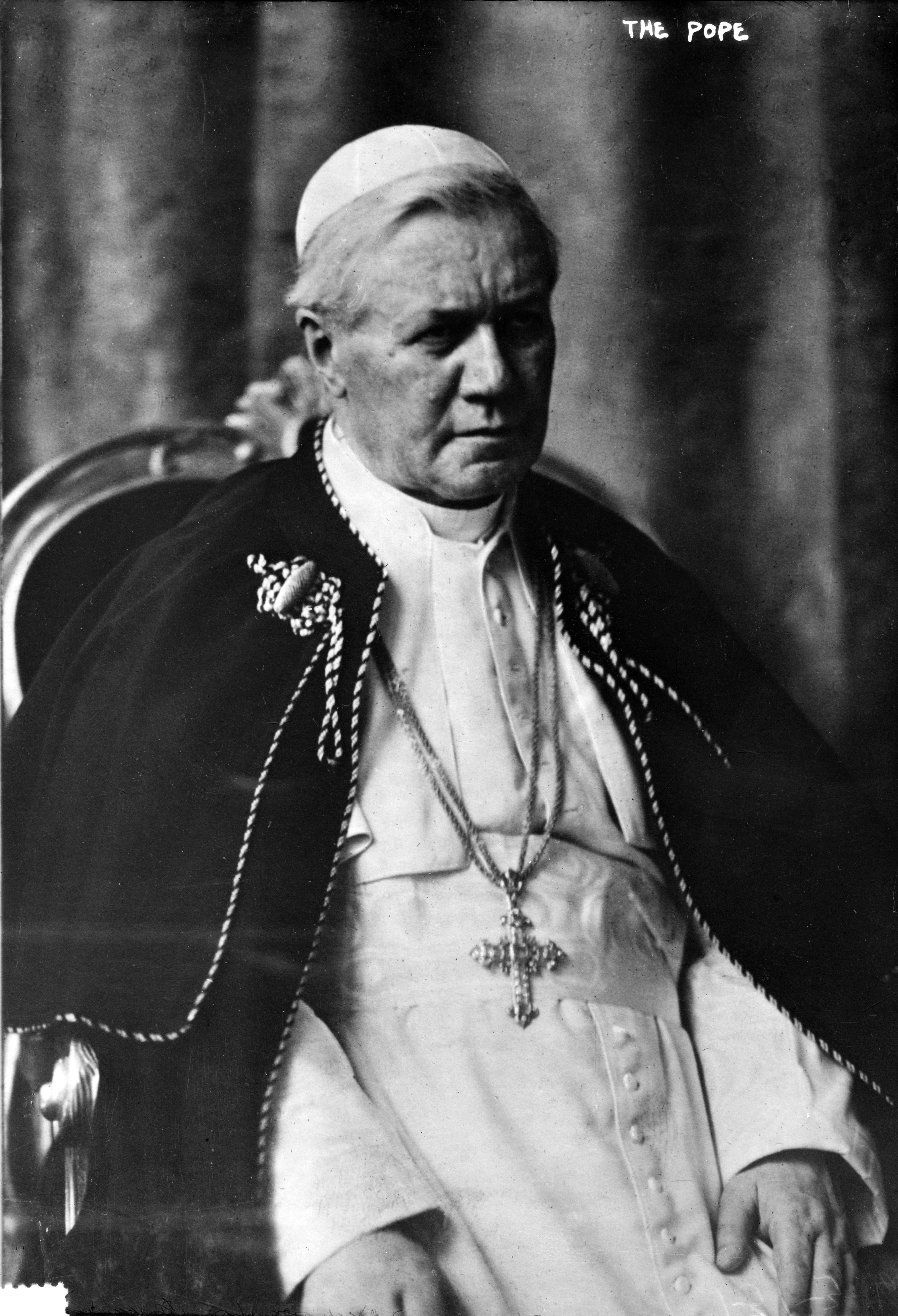 Pope Pius X 1 negative : glass ; 5 x 7 in. or smaller.